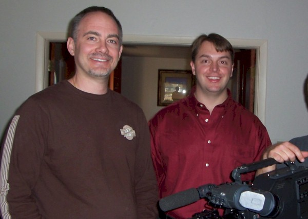 Christopher Hines and Adam Lovell during the filming of E! True Hollywood episode about Lovell's .